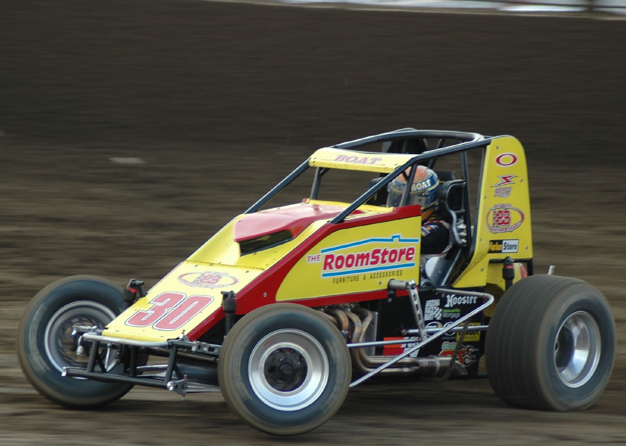 Chad Boat driving the No. 30 midget car in 2007.